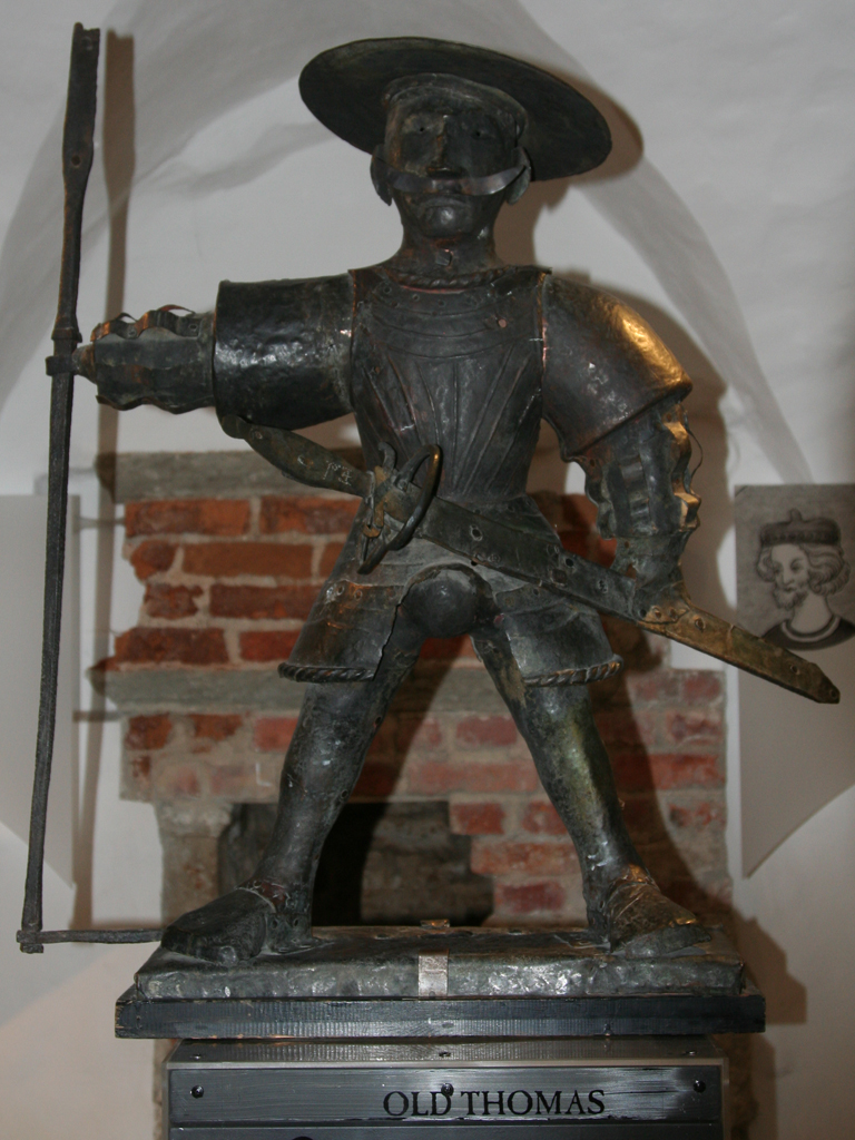 Photo of the original (1530) weather-wane from Tallinn's town hall spire